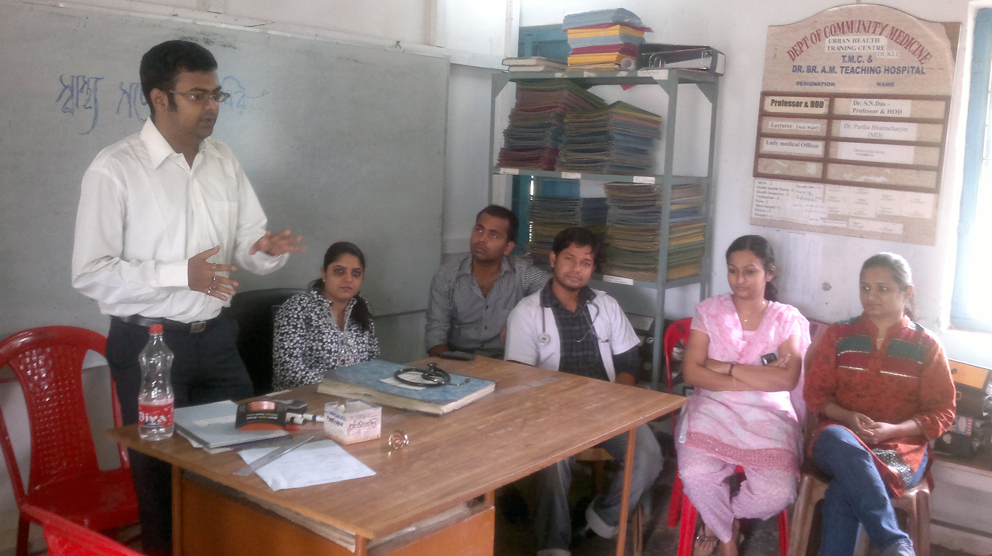 TMC interns imparting health education